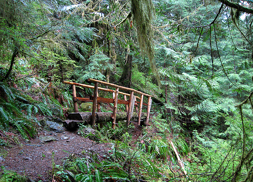 Boulder River trail in the Boulder River Wilderness of the Mount Maker-Snoqualmie National Forest in Washington state, United States.